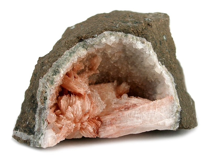 Thomsonite-Ca Locality: Forra di Bulla (Pufels; Pufler Loch; Pufelser Loch), Ortisei (St Ulrich), Siusi Alp (Seis Alp), Gardena Valley (Gröden Valley), Bolzano Province (South Tyrol), Trentino-Alto Adige, Italy (Locality at ) Size: small cabinet, 8.0 x 6.0 x 4.2 cm Thomsonite Beautiful, salmon-colored, elongated crystals of thomsonite in a natural geode from this classic Alpine locality. This is from the collection of Phil Scalisi, exchanged to him from Harvard over 20 years ago. These crystals are quite large by any standard, alpine or otherwise.